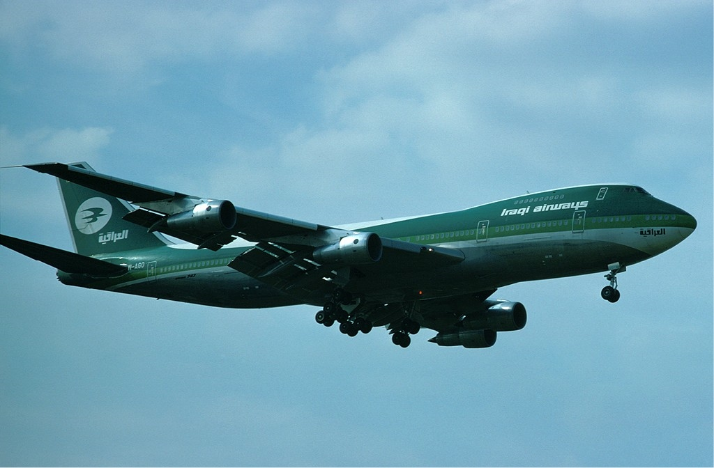 Iraqi Airways Boeing 747-200